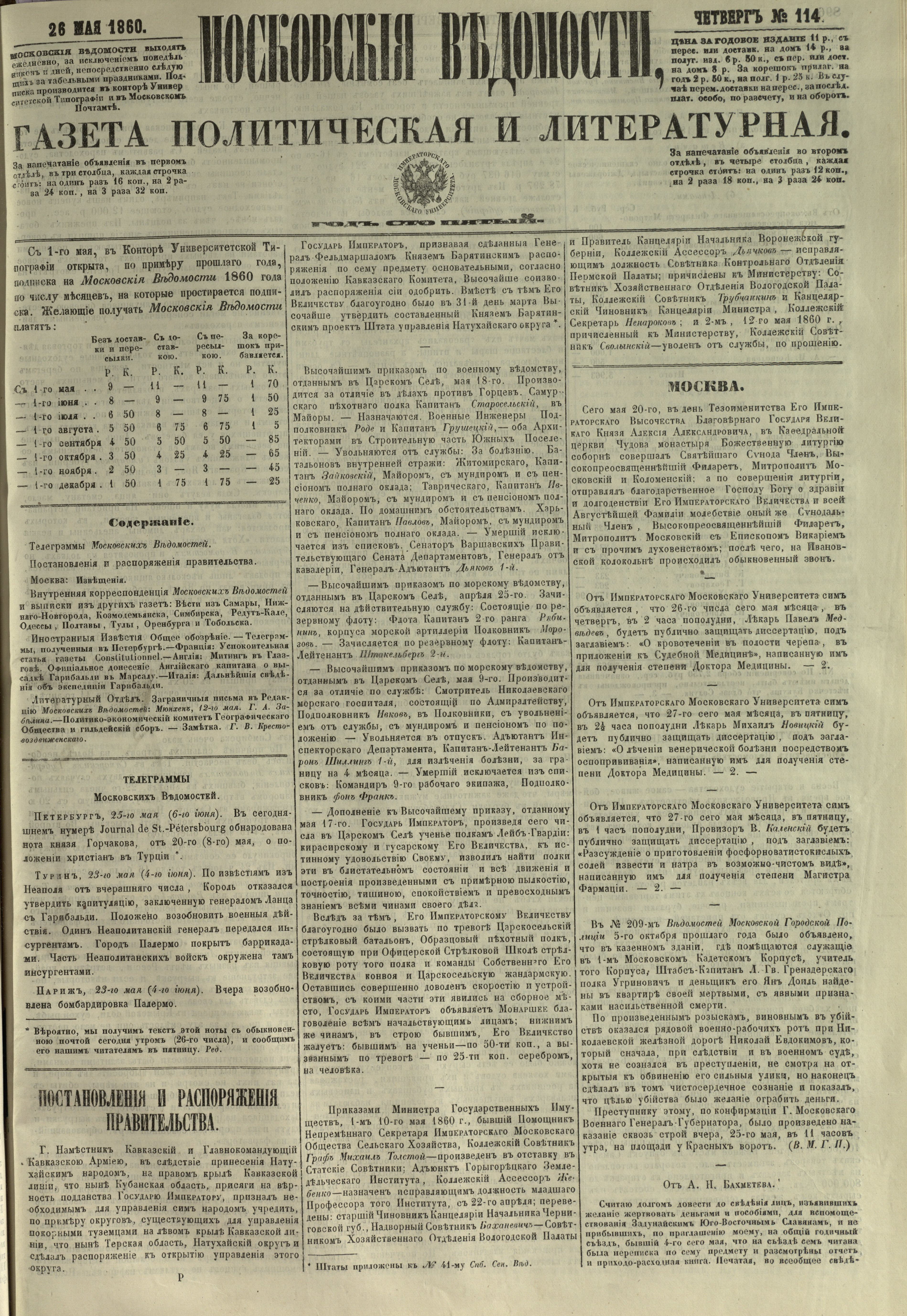 Страница из газеты "Московские ведомости" за 1860 г., где упоминается митрополит Московский Филарет (Дроздов).